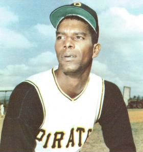 Professional baseball player Andy Rodgers